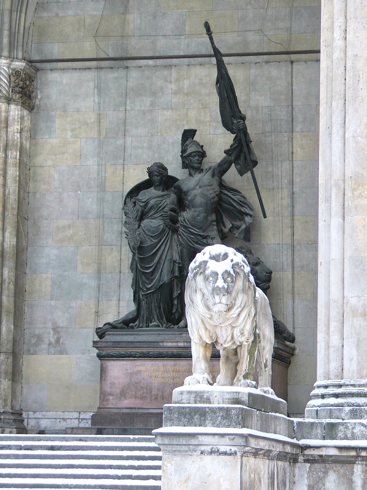 Feldherrnhalle in Munich, detail. Lion sculpted by Wilhelm von Rümann